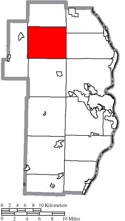 Map of the municipal and township boundaries of Jefferson County, Ohio, United States, as of the 2000 census, with the location of Ross Township highlighted. Township borders are shown only in unincorporated areas in order to differentiate incorporated and unincorporated areas more clearly.